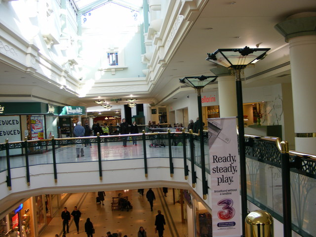 The Glades Shopping Centre The Centre off Bromley High Street.